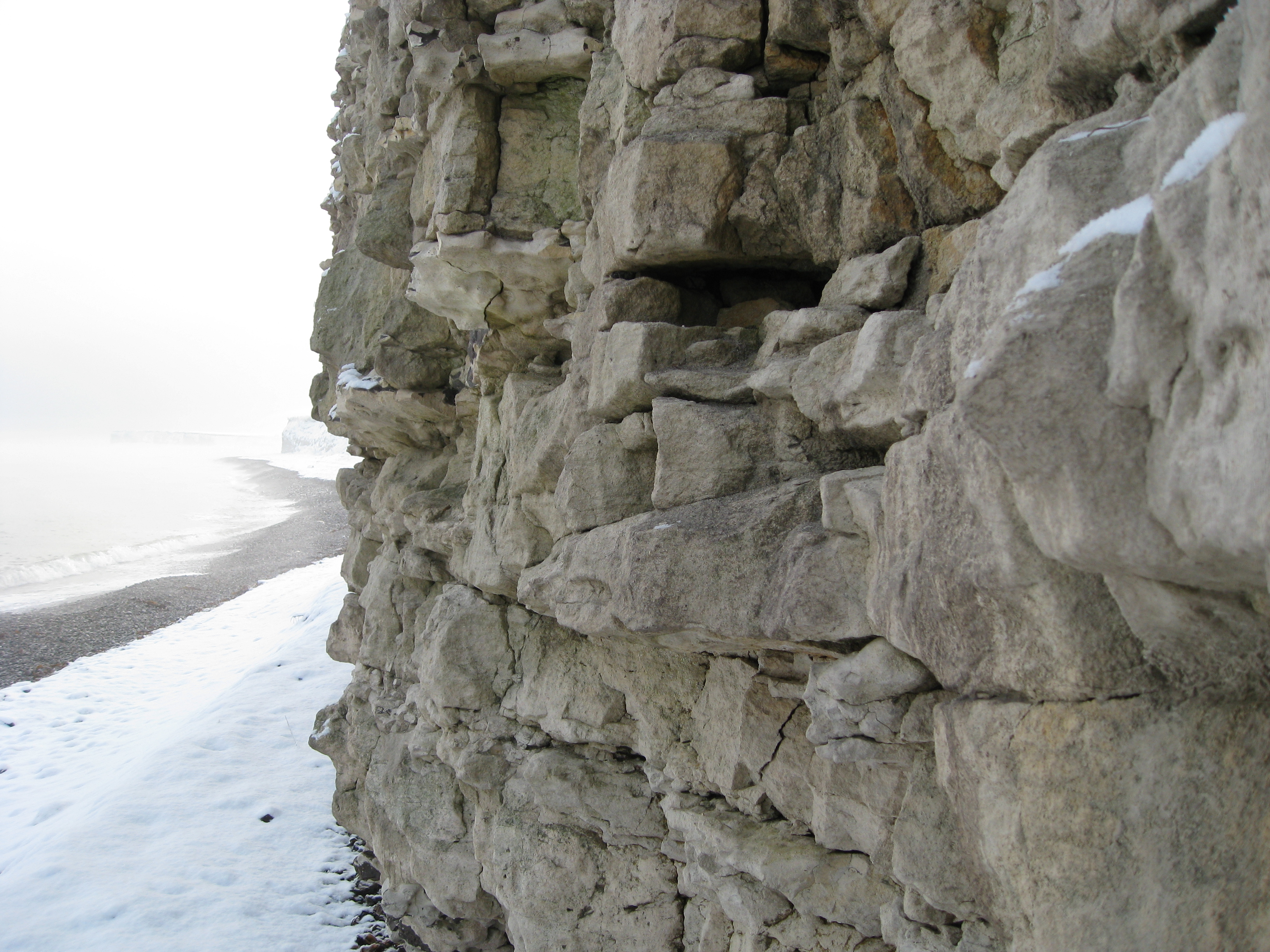 Foto taget af mig, Sebastian Nils